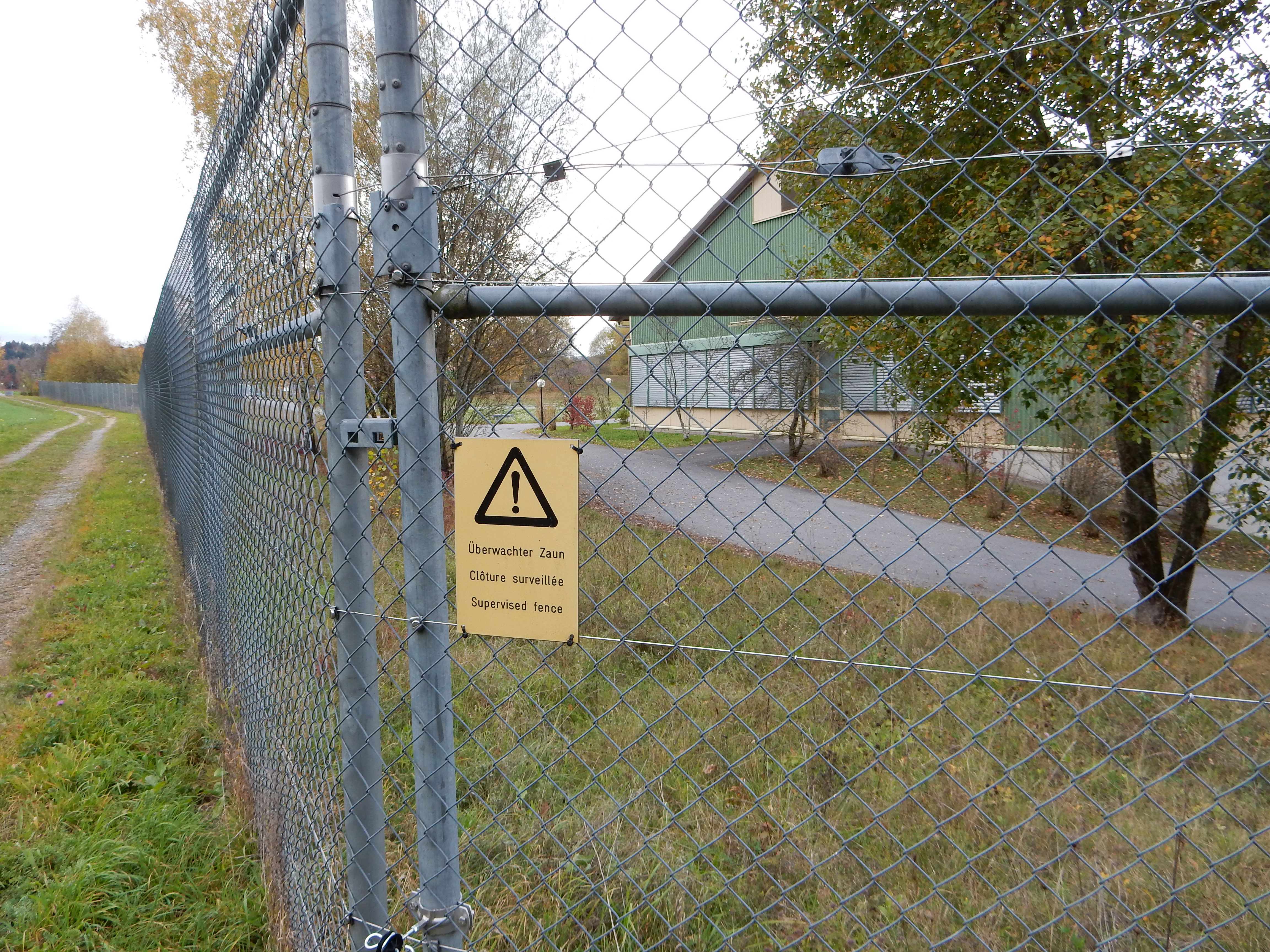 Institute of Virology and Immunology (IVI) in Mittelhäusern (Köniz/Switzerland). High-security laboratory with the capacity to diagnose and research highly contagious animal diseases.